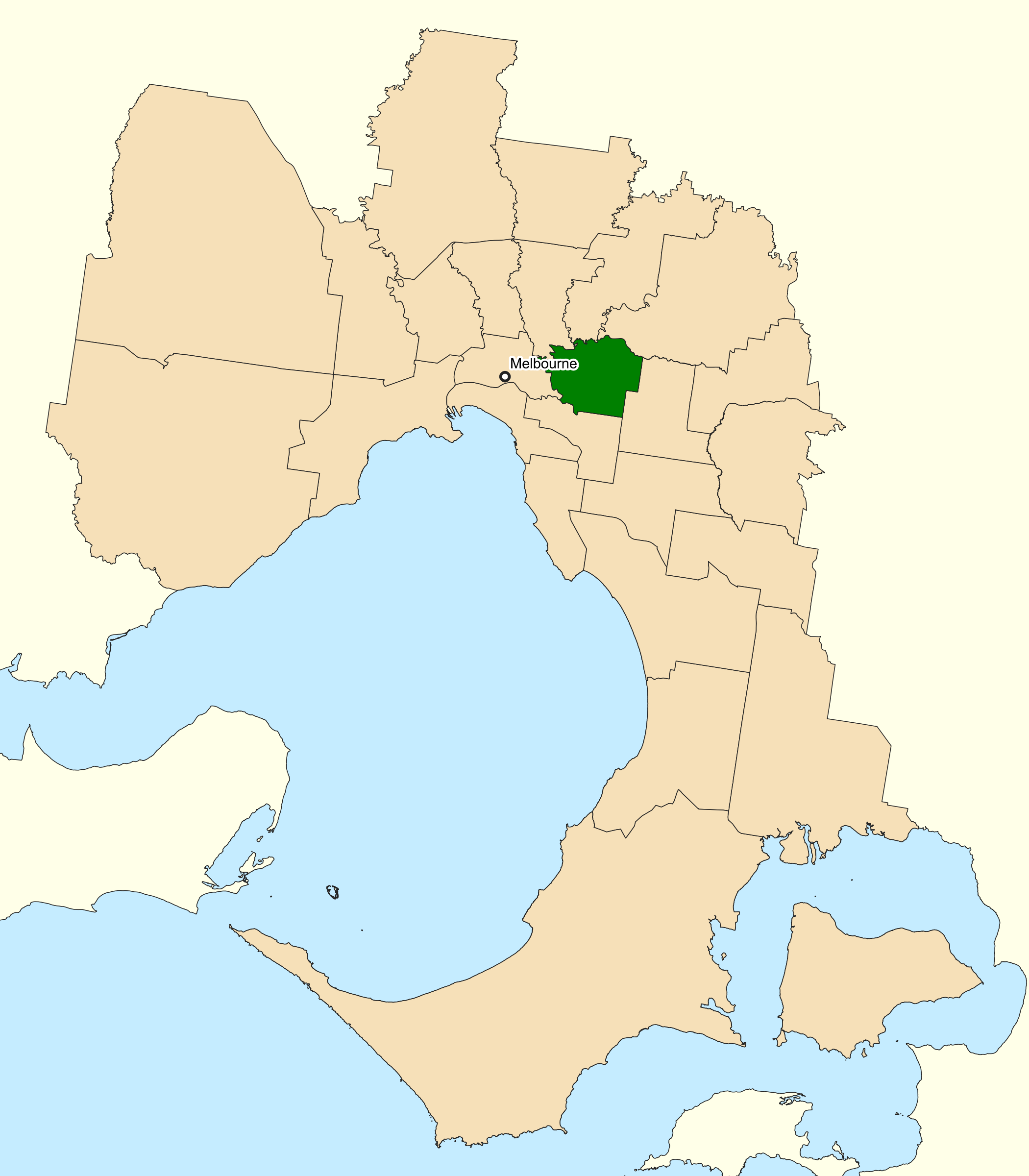 Location of the Australian federal electoral division of Kooyong (dark green) in Greater Melbourne, Victoria as of the 2019 Australian federal election. Incorporates or developed using Administrative Boundaries ©PSMA Australia Limited licensed by the Commonwealth of Australia under Creative Commons Attribution 4.0 International licence (CC BY 4.0).